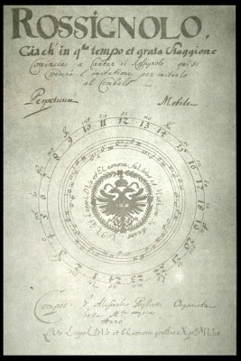 Title page of Alessandro Poglietti's Rossignolo (1677), a collection of harpsichord music.